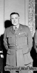 Portrait of Sir :en:Robert Mansergh|Robert Mansergh circa 1950. Downloaded from the Imperial War Museum Website. Author: Taken by an official photographer; site says "Supplied by US Army". IWM website asserts :en:Crown Copyright|Crown Copyright applies. However as a work for the British Government completed prior to 1955 this may not be the case.